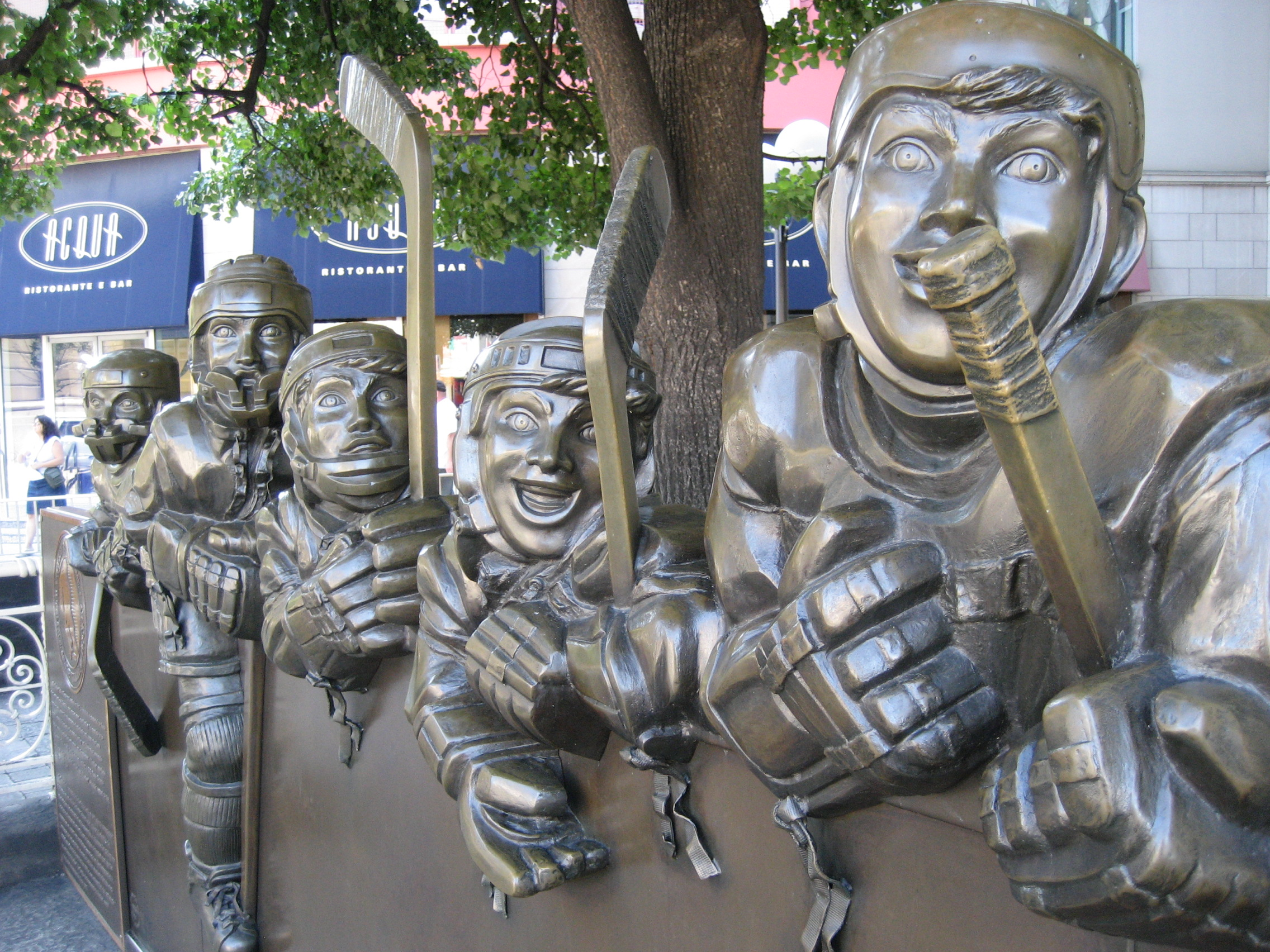 Hockey Hall of Fame, Toronto, Ontario, Canada.